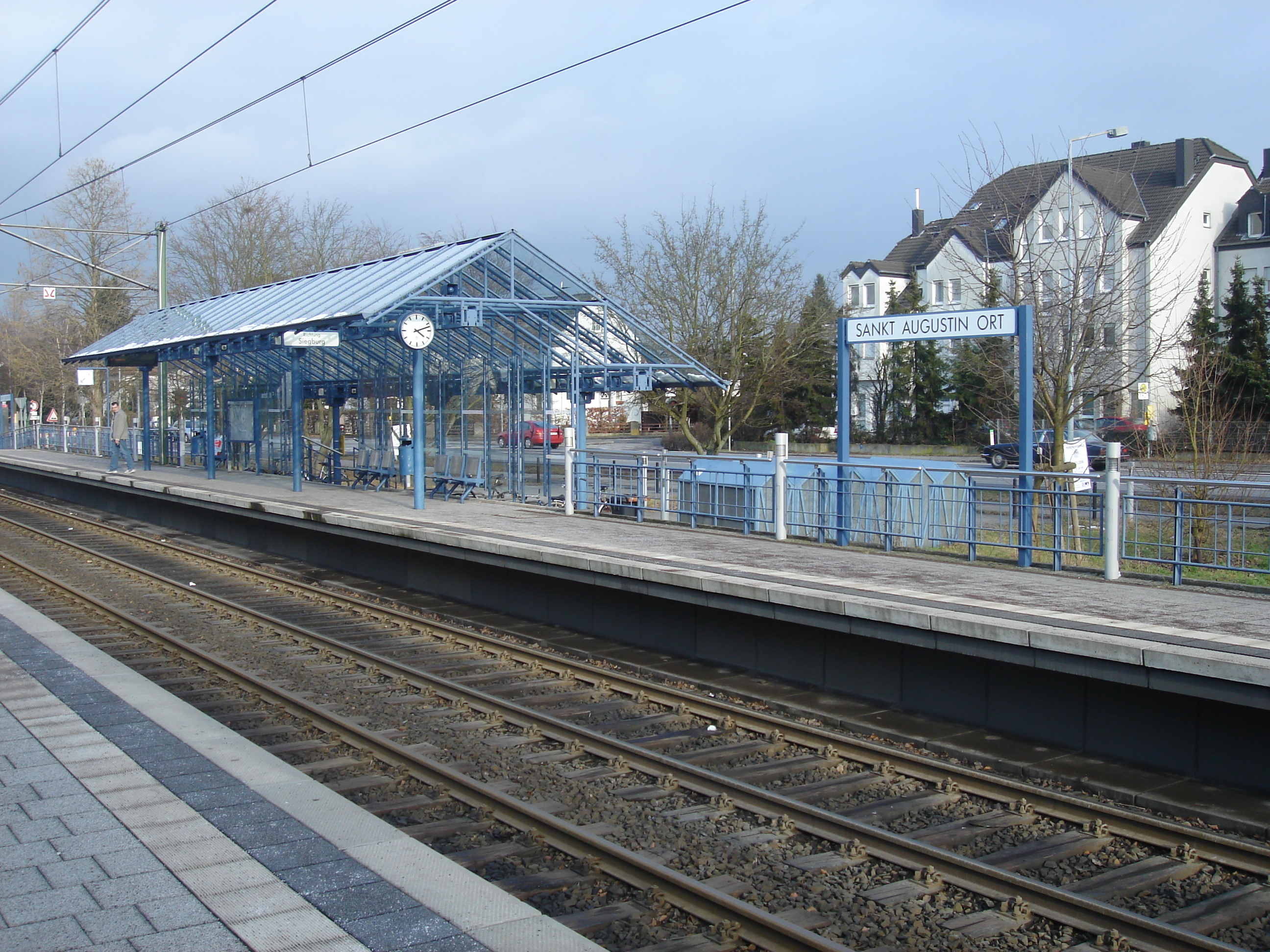 Urban railway stop Sankt Augustin Ort of the Siegburger Bahn in Sankt Augustin.